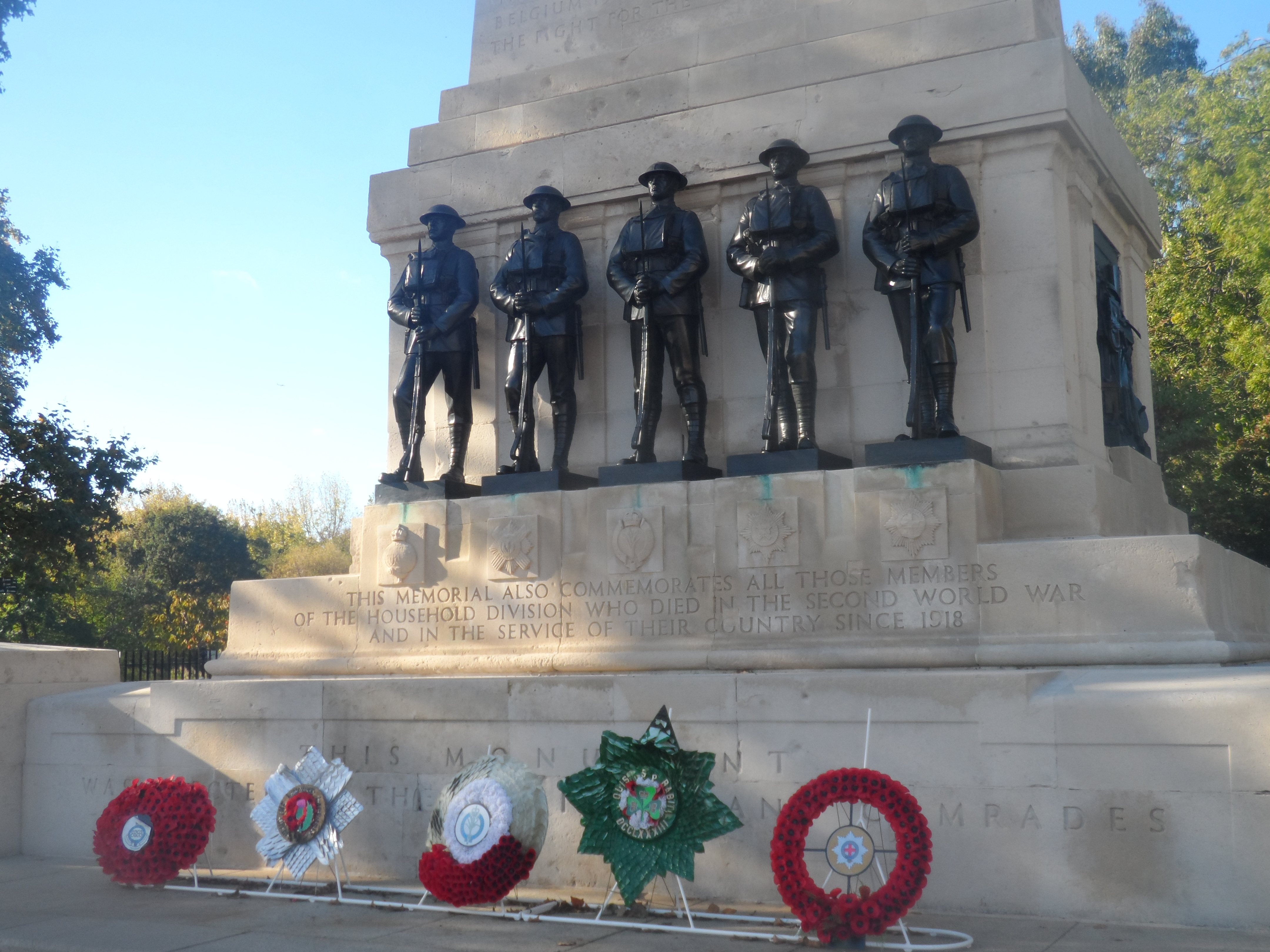 Household Regiment memorial